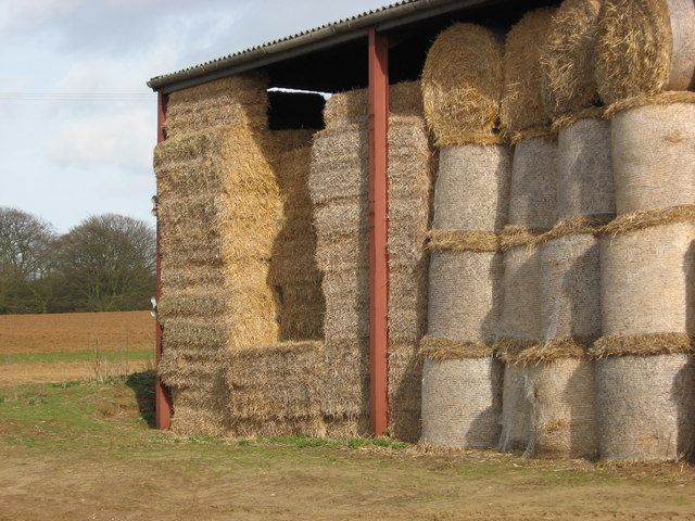 Dutch barn and straw bales at Bussock Barn Giant straw bales stored in a dutch barn. The original Bussock Barn is close by, just to the south of this spot.